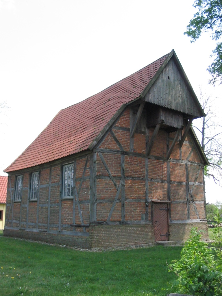 Church of Karstädt (Mecklenburg), Germany